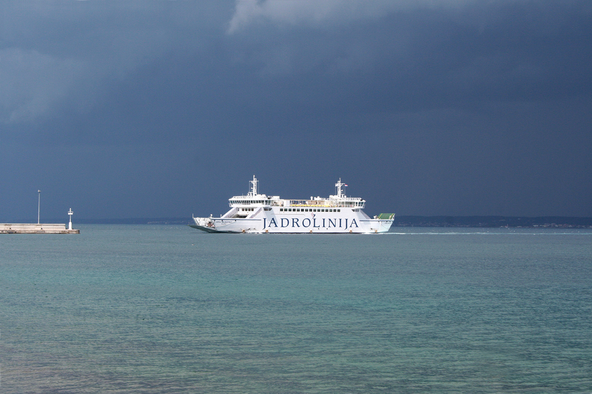 A Jadrolinjia ferry in Preko (Croatia)